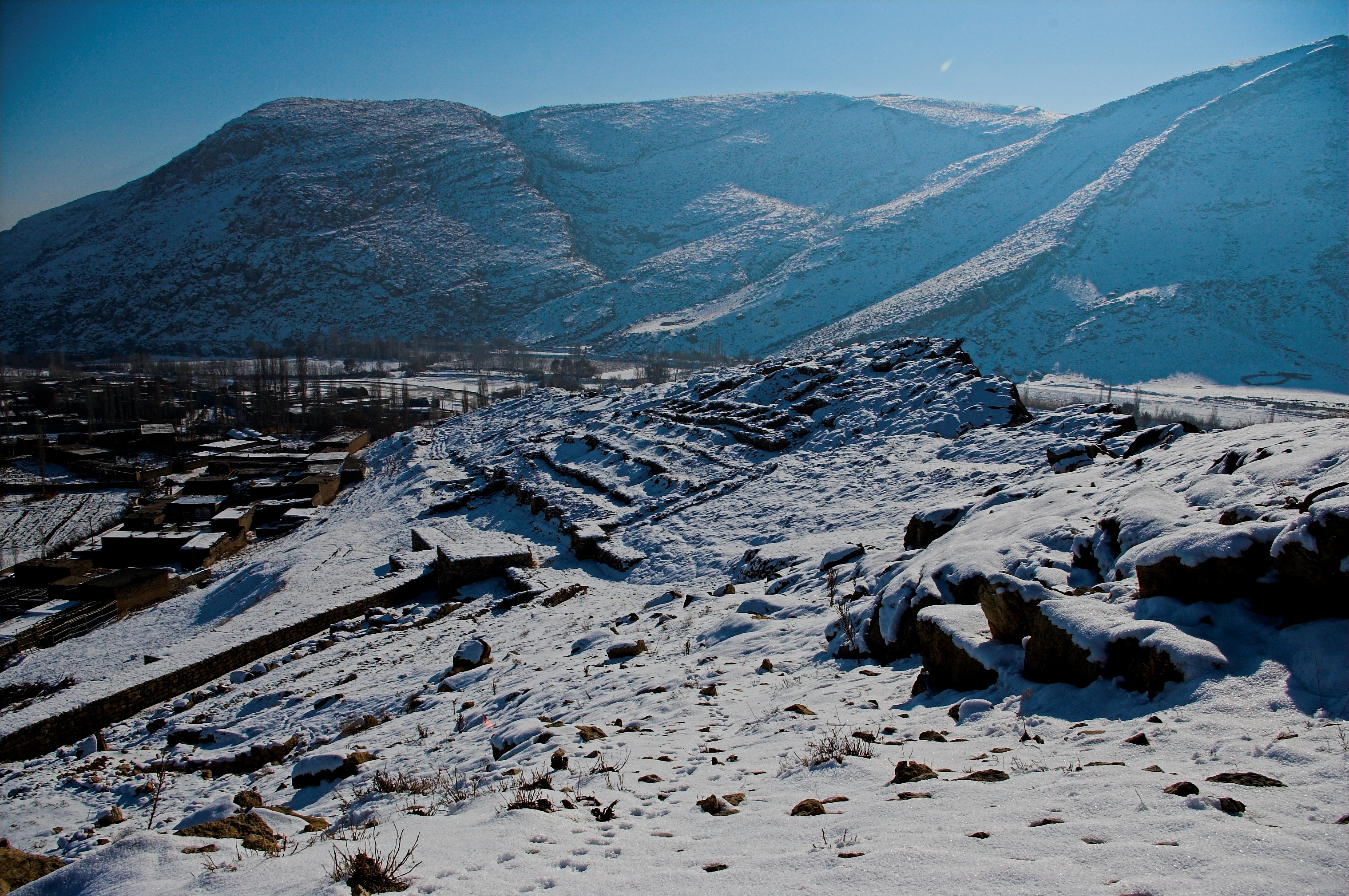 Bastam (Rusa-i Uru Tur in elamite) is one of the principal urartian fortresses. It's the second biggest one after Tushpa. The site was populated from the third mill. BC to seventh century BC.